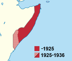 Progress italy-somali lands